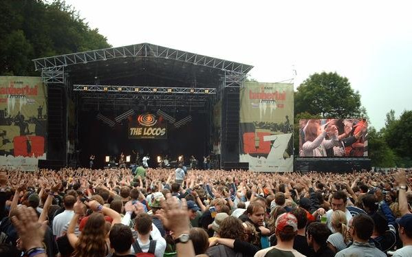 The Locos on the Center Stage of Taubertal Festival 2007 in Germany.